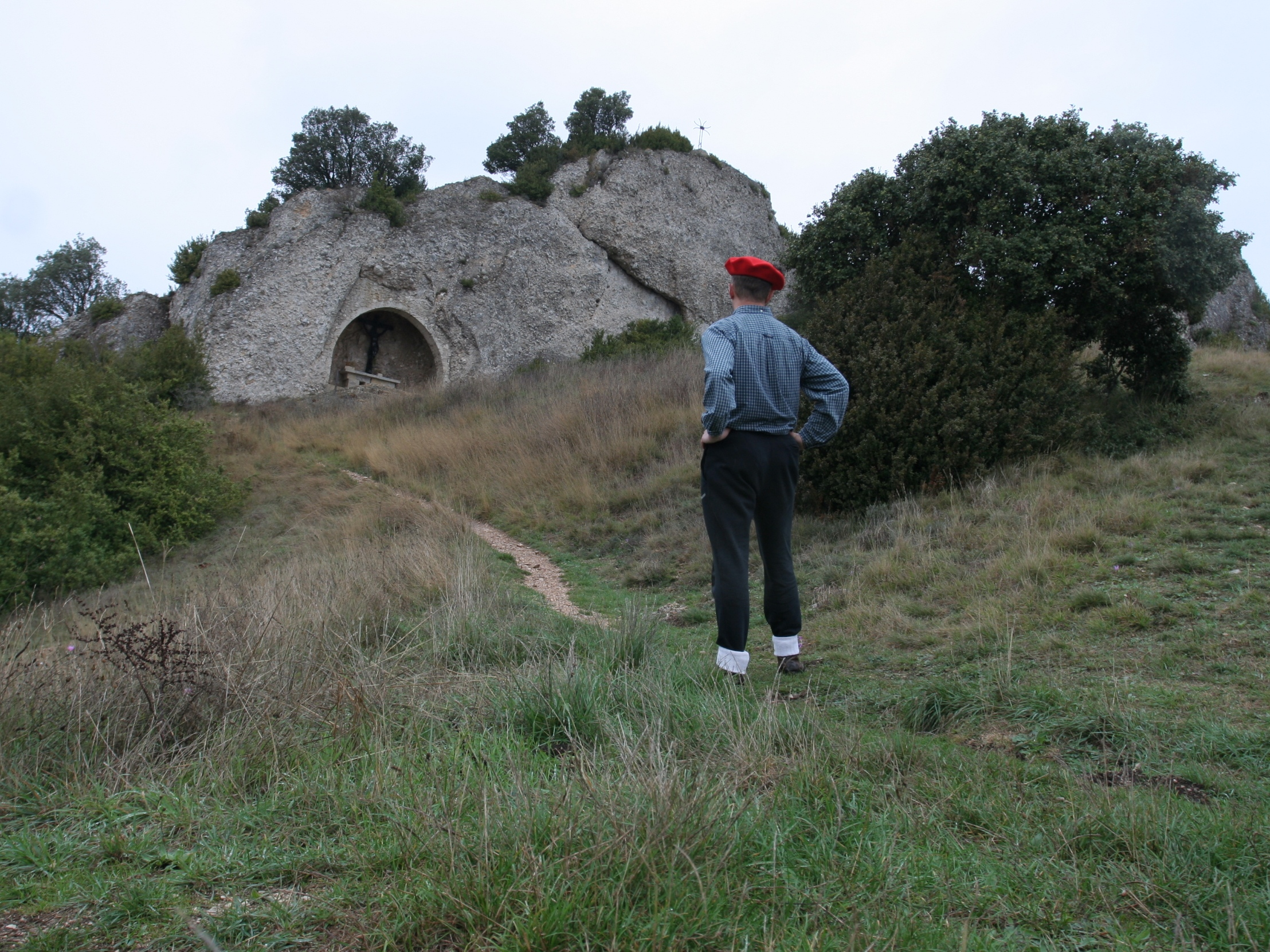 easternmost summit of Montejurra from the San Cipriano hermitage, site of the annual Carlist gatherings